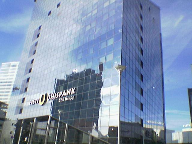 SEB Estonia. SEB bank, 94 m, built 1999, placed in Tallinn, Estonia/Estland